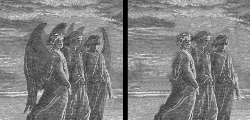 Demonstration of the Clone tool to alter an image - Abraham and the Three Angels by Gustave Doré